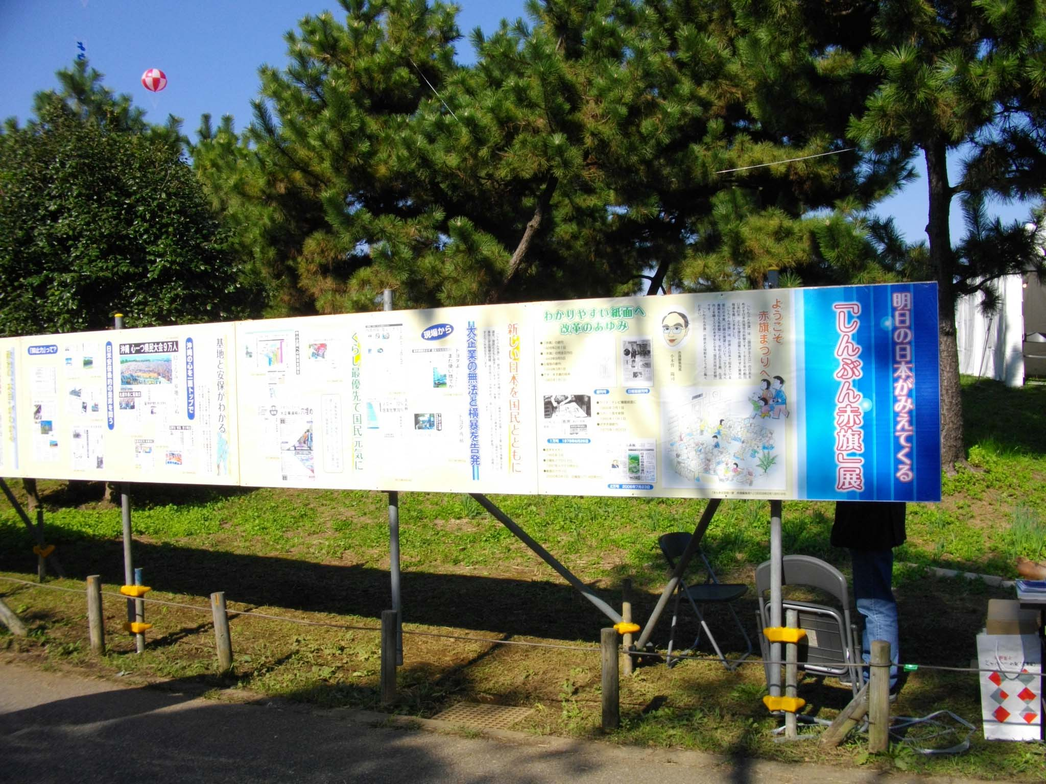 Akahata Matsuri(Shimbun Akahata exhibition)